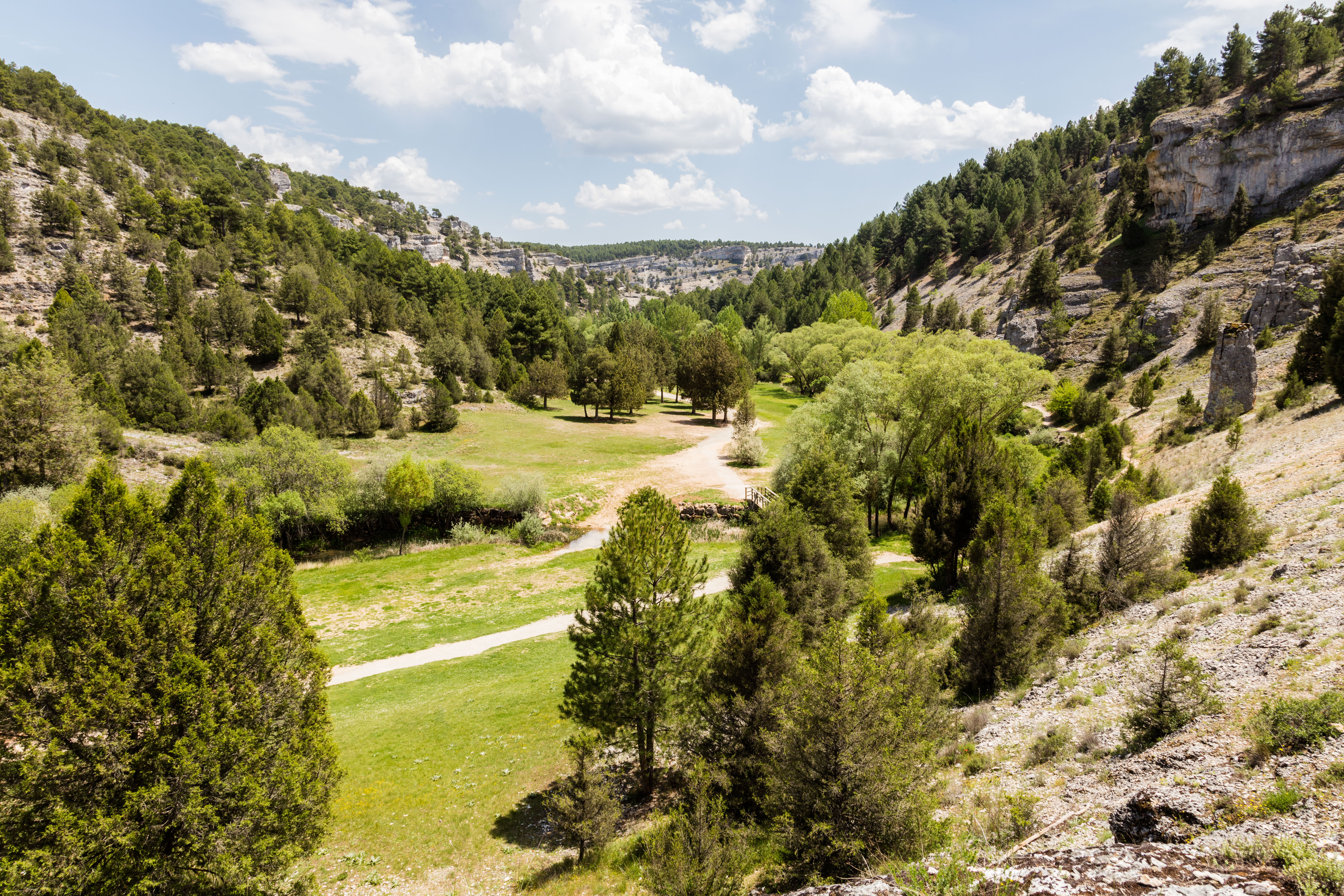 Canyon of the Lobos River Natural Park, Soria, Spain